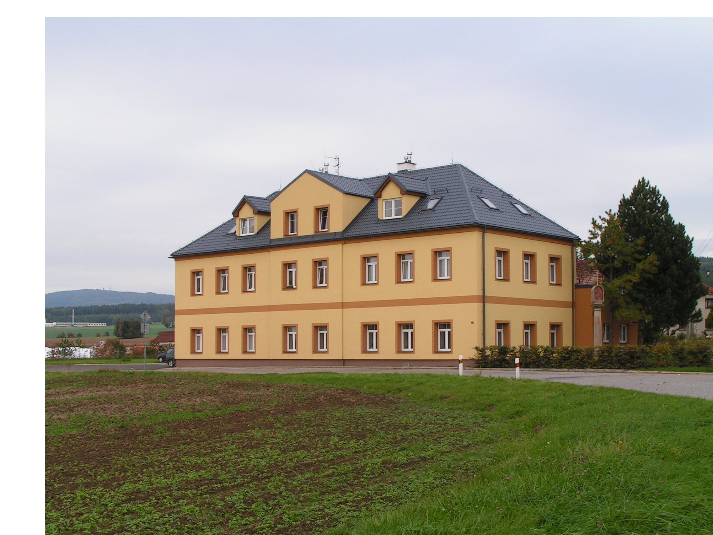 Radim (Jicín district). Dwelling house in Radim (reconstructed inn in the year 2009)